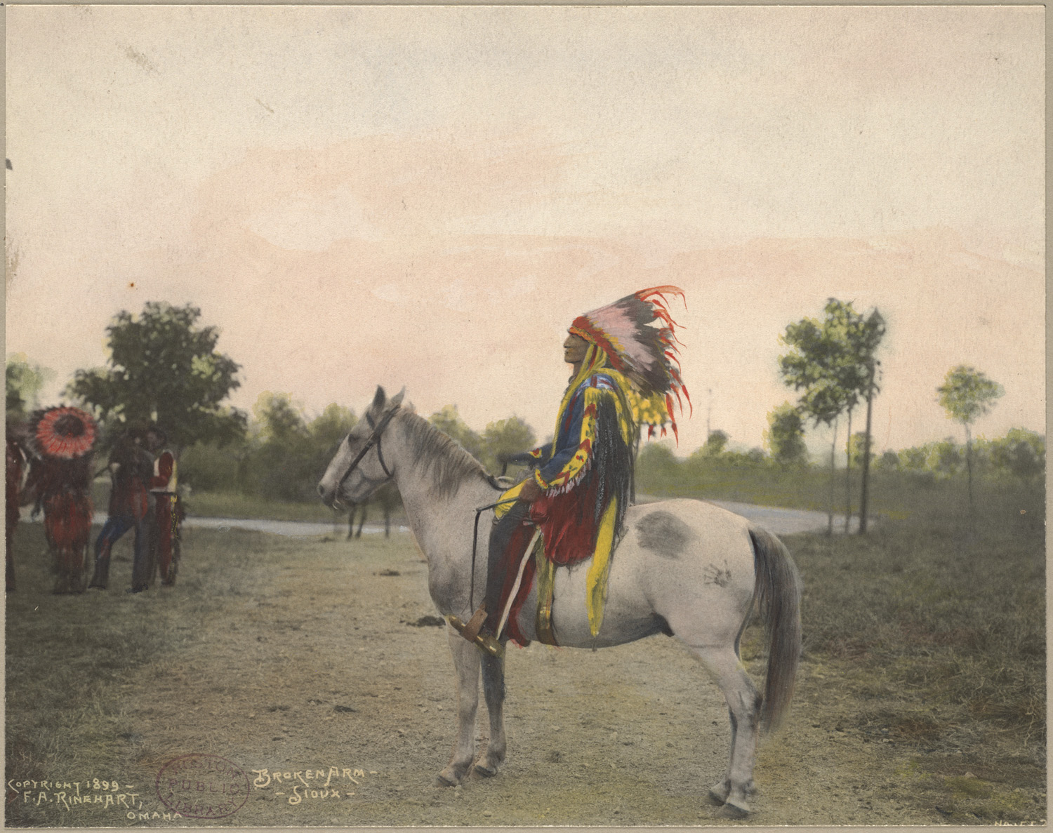 BPLDC no.: 09_06_000090 Title: Broken Arm, Sioux Photographer: Rinehart, F. A. (Frank A.) Copyright date: 1899 Extent: 1 photographic print : platinum, hand-colored Genre: Platinum prints; Portrait photographs Description: On horseback in Indian Village. Subject: Indians of North America; Dakota Indians; Trans-Mississippi and International Exposition (1898 : Omaha, Neb.) BPL Department: Print Department